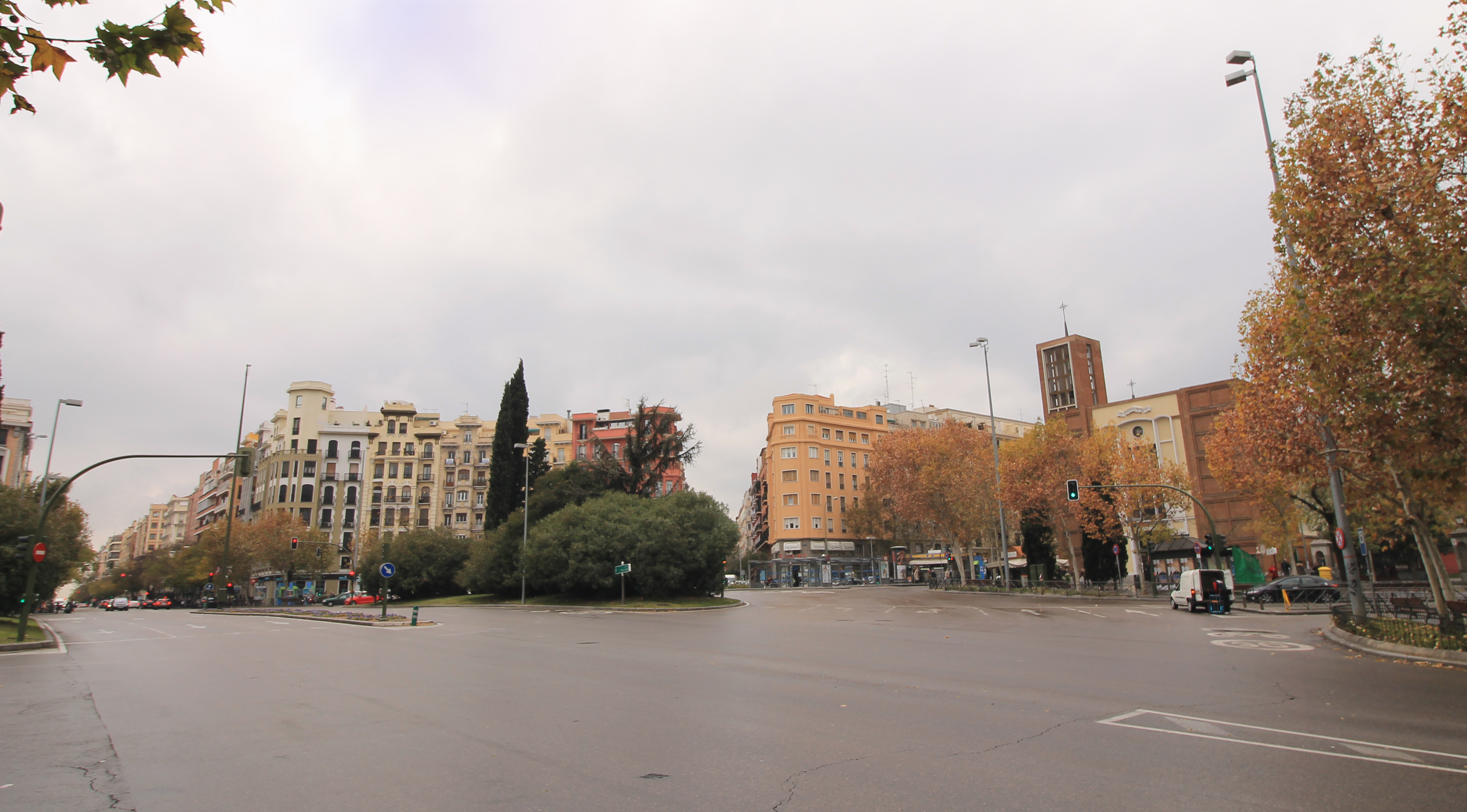 View from Plaza de Manuel Becerra (square) in Madrid (Spain).